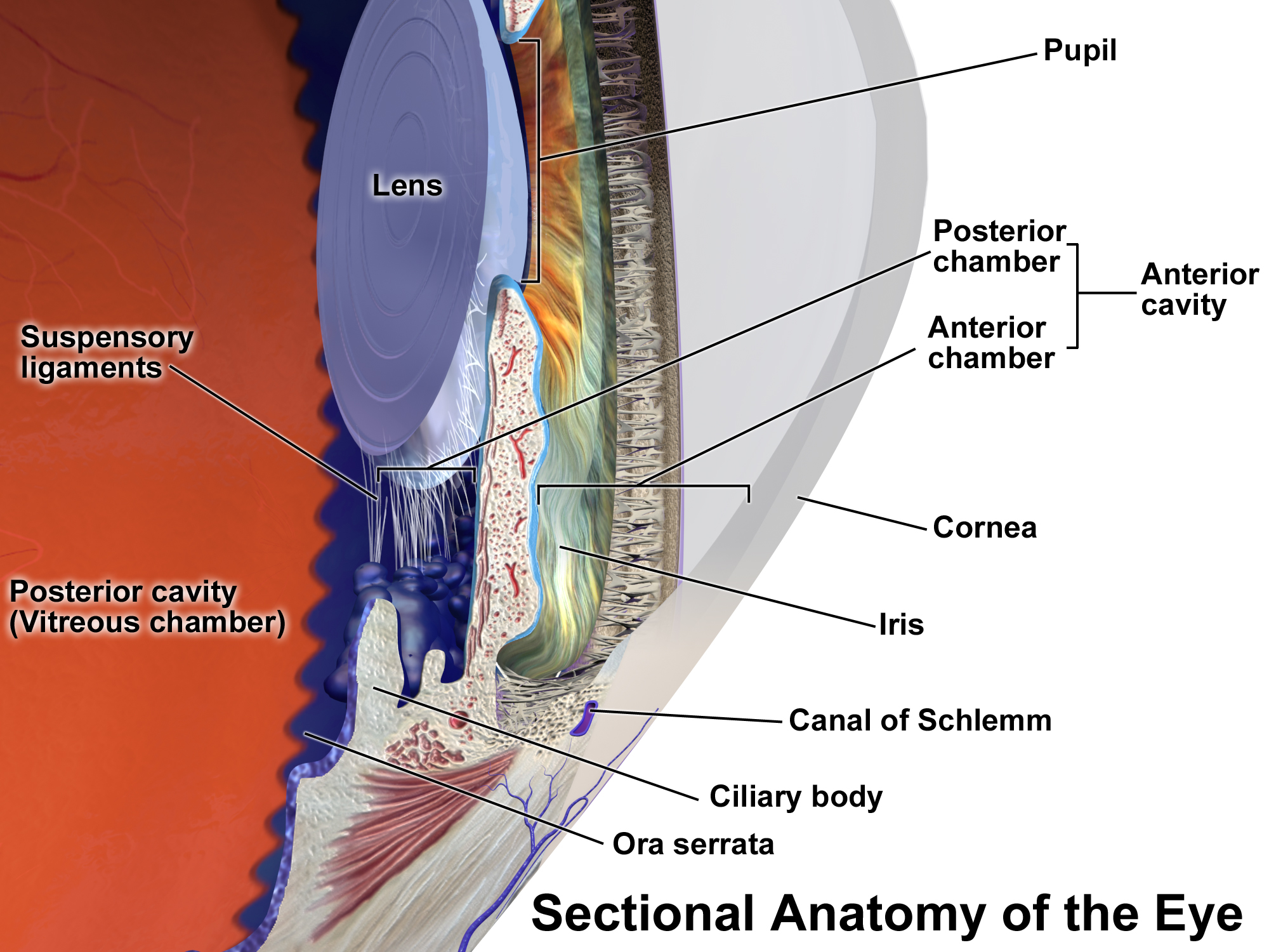 Sectional Anatomy of the Eye. See a related animation of this medical topic.